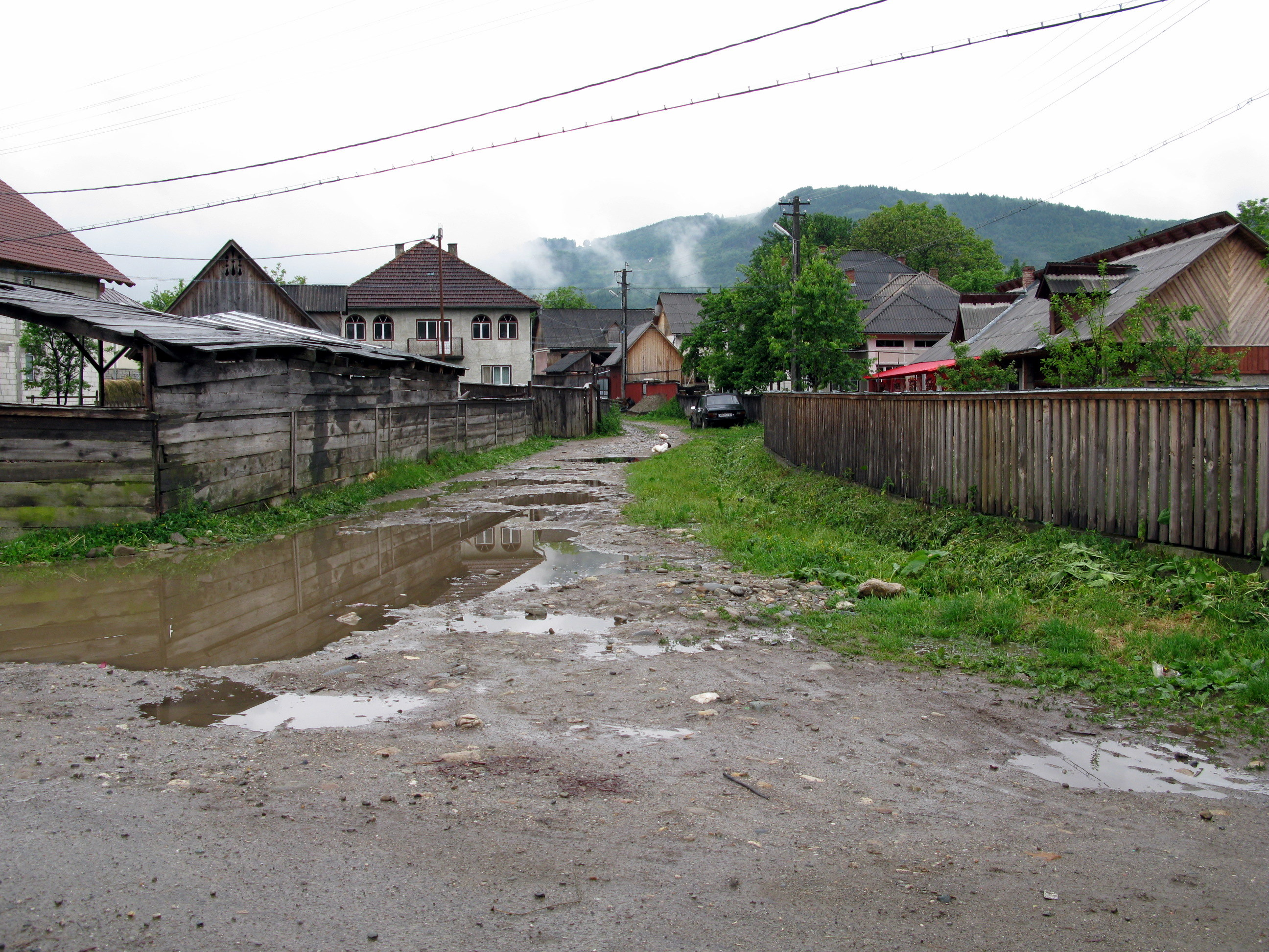 Viseu de Mijloc in Maramureş Mountains (Inner Eastern Carpathians) in north of Rumania / EU. The street is not paved. After the rain there are puddles. On the left is a wooden fence, right, a picket fence.